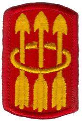 30th Field Artillery Brigade shoulder sleeve insignia. Representation of United States Army Insignia, ineligible for copyright